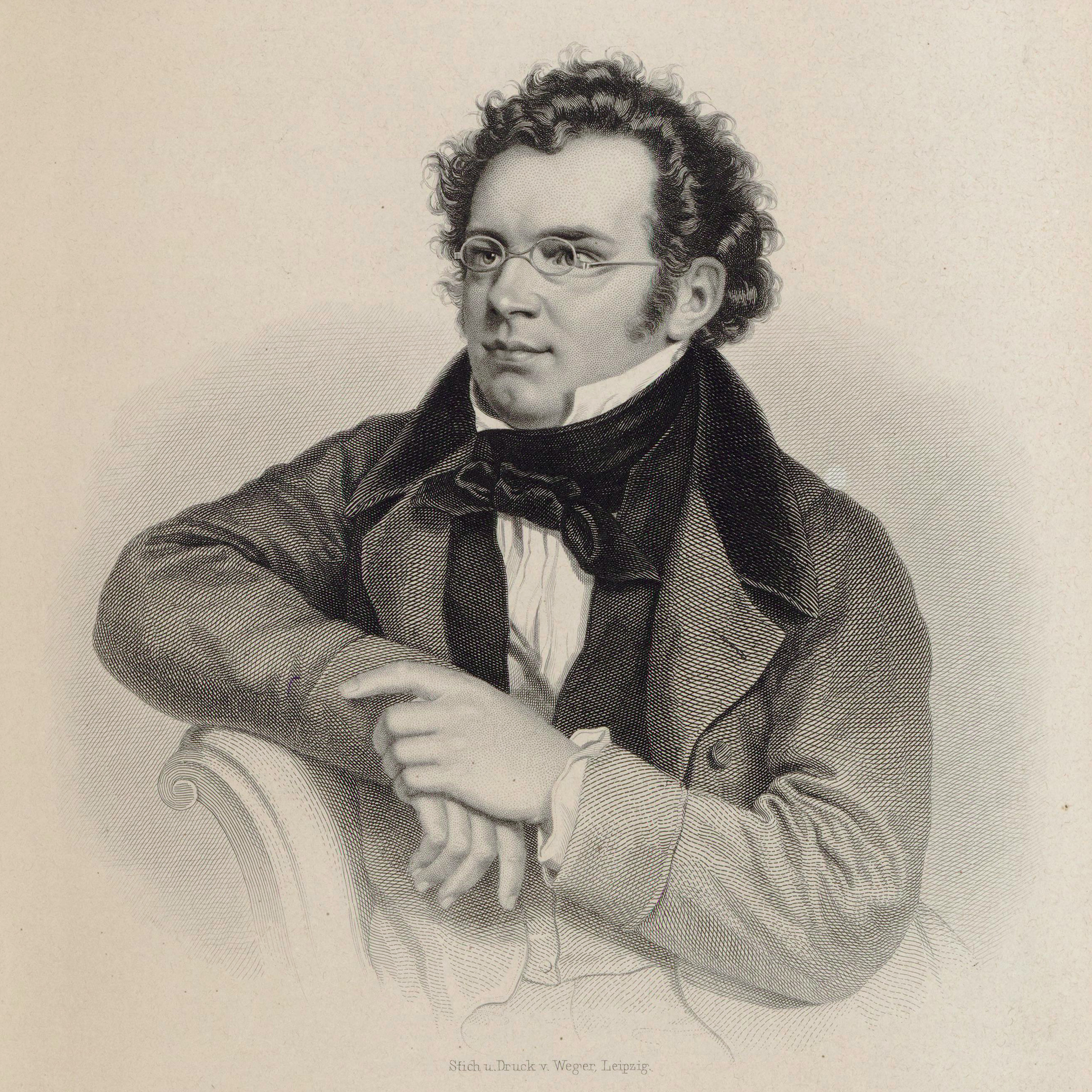 Depicted person: Franz Schubert